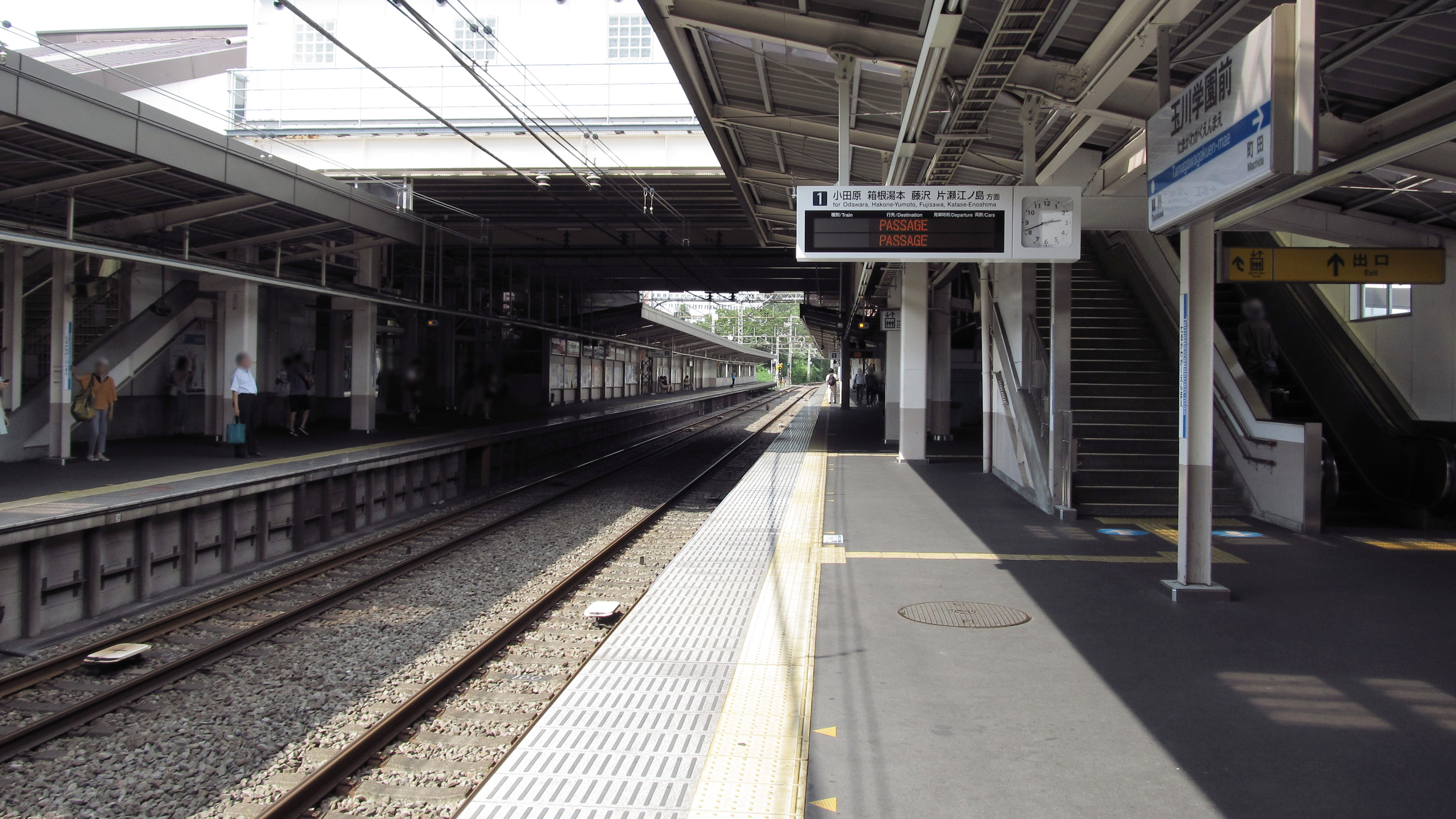 The platforms at Tamagawagakuen-mae Station on the Odakyū Electric Railway Odawara Line in Machida city, Tokyo, Japan